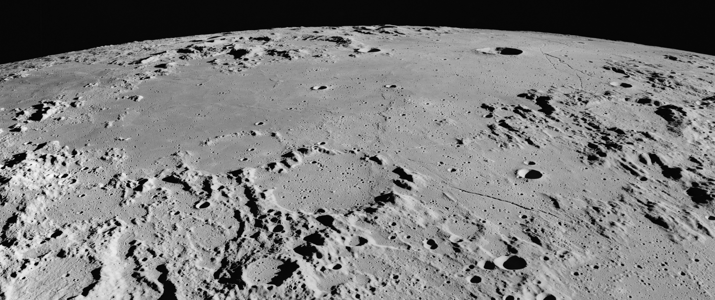 Oblique view of Sinus Medii, on the moon, facing north. Blagg and Bruce are near center, Réaumur is bottom center, and Triesnecker is in upper right.